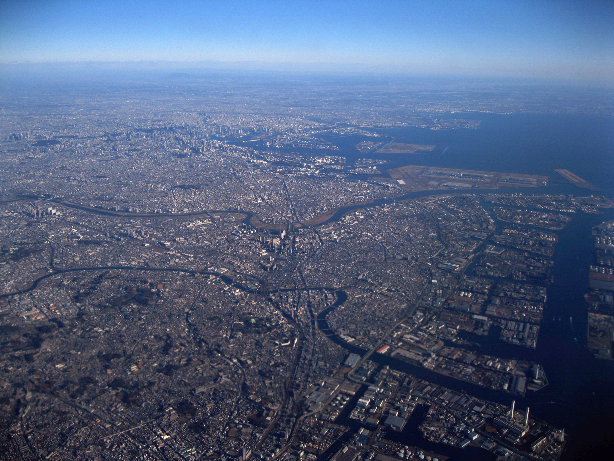 A view of the downtown of Tokyo & Kawasaki City of Kanagawa Prefecture. Looking the northeast.